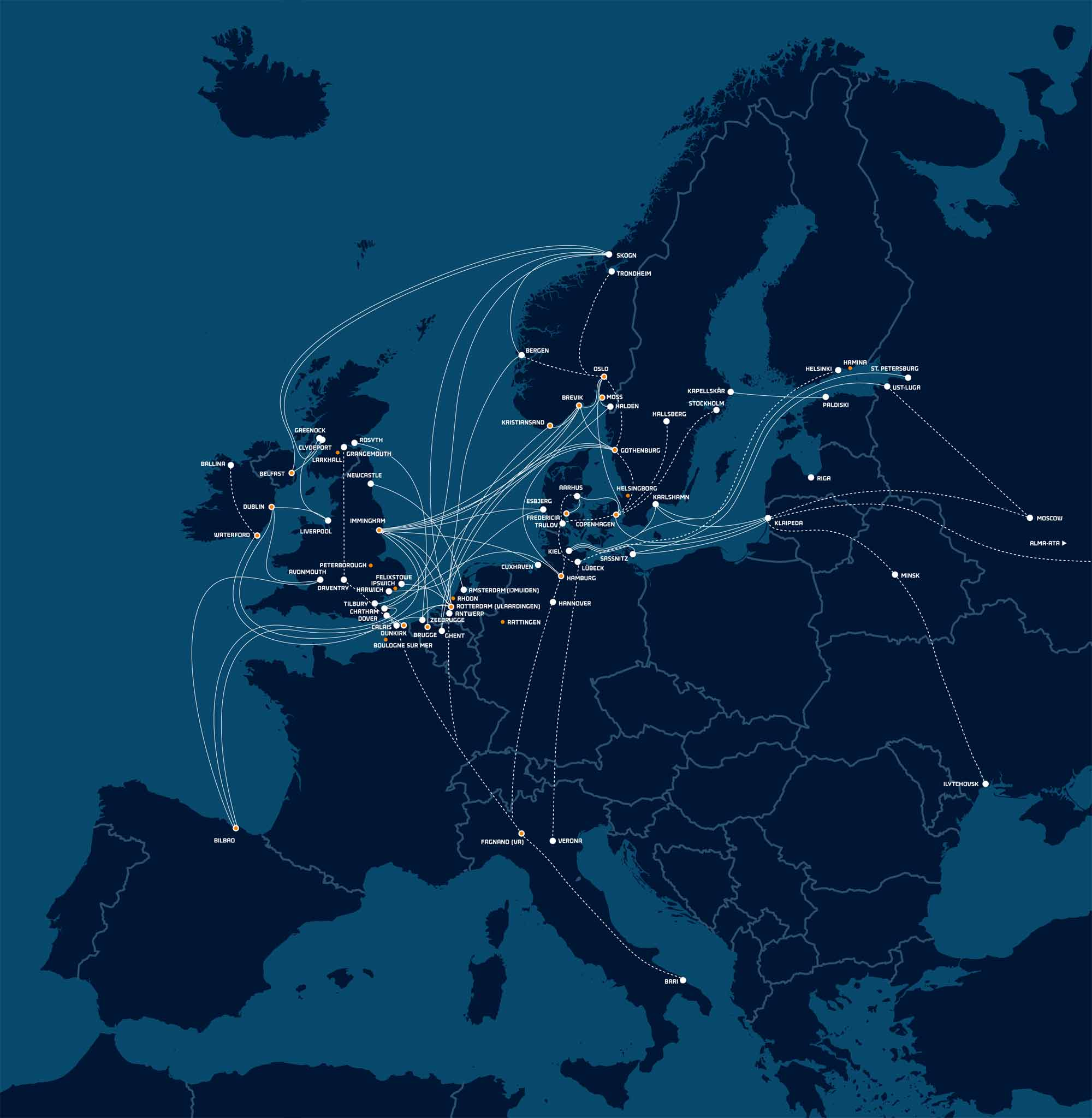 DFDS Routemap